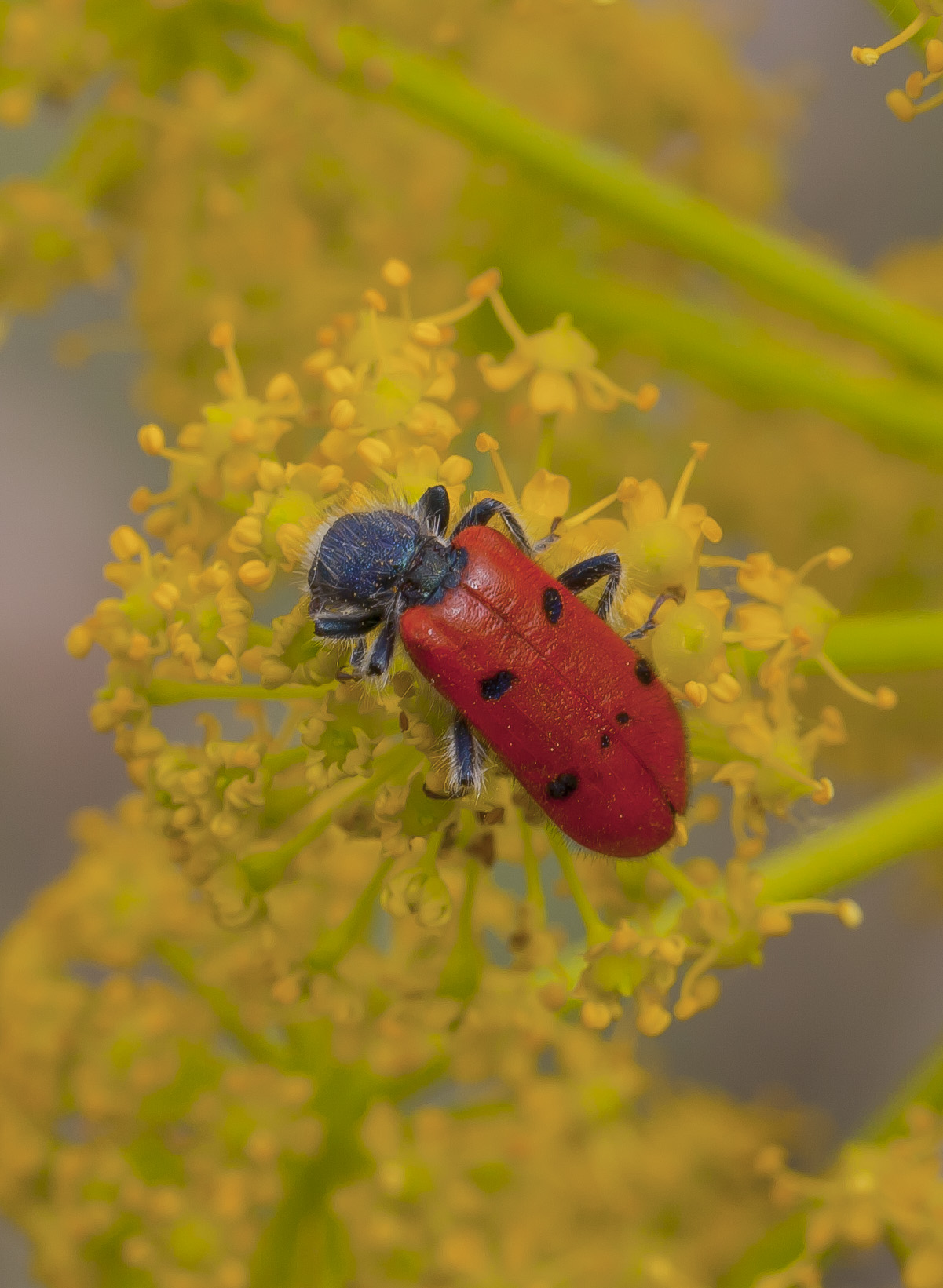 Mylabris quadripunctata, Calatayud, Spain